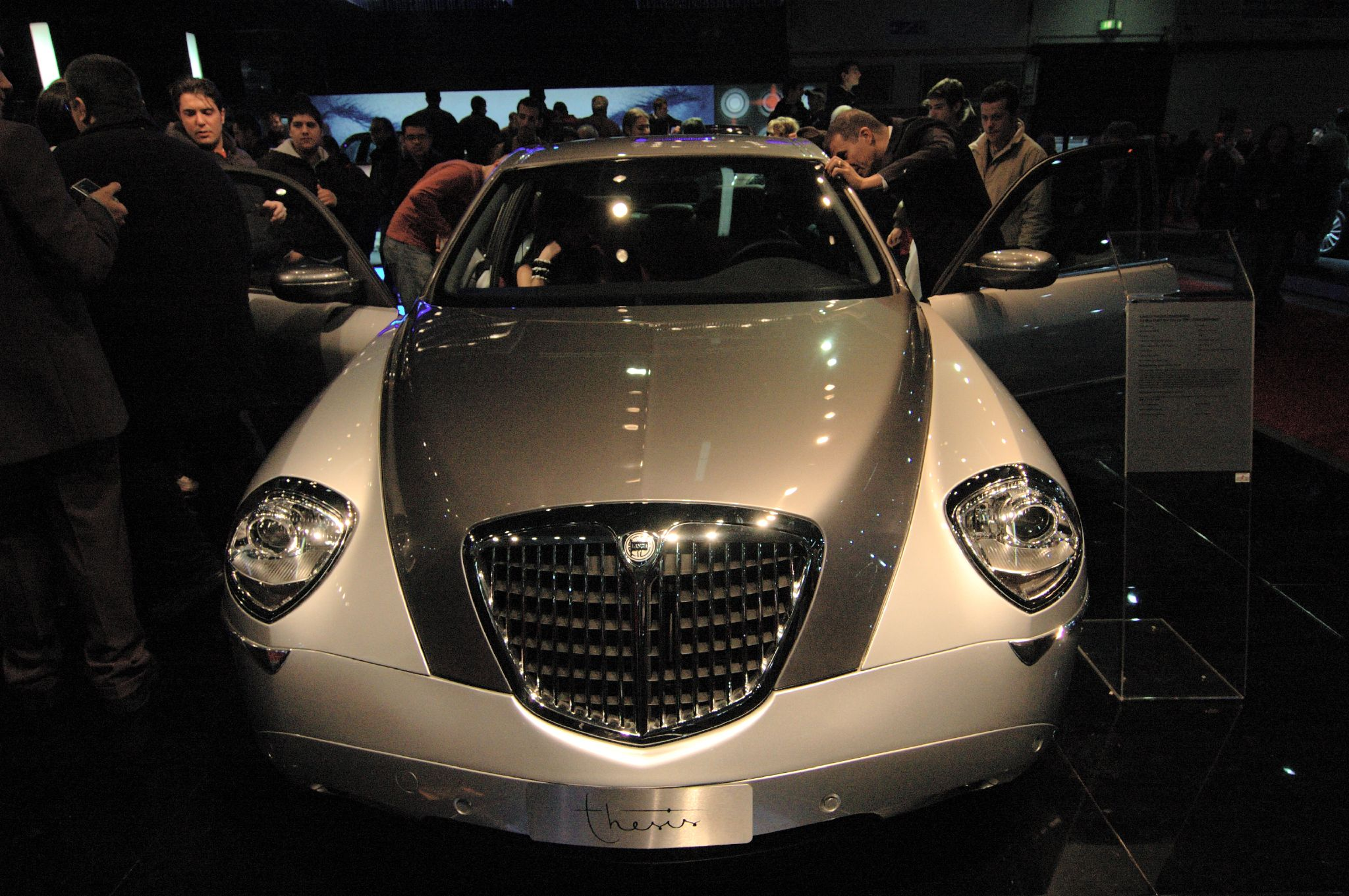 Lancia Thesis